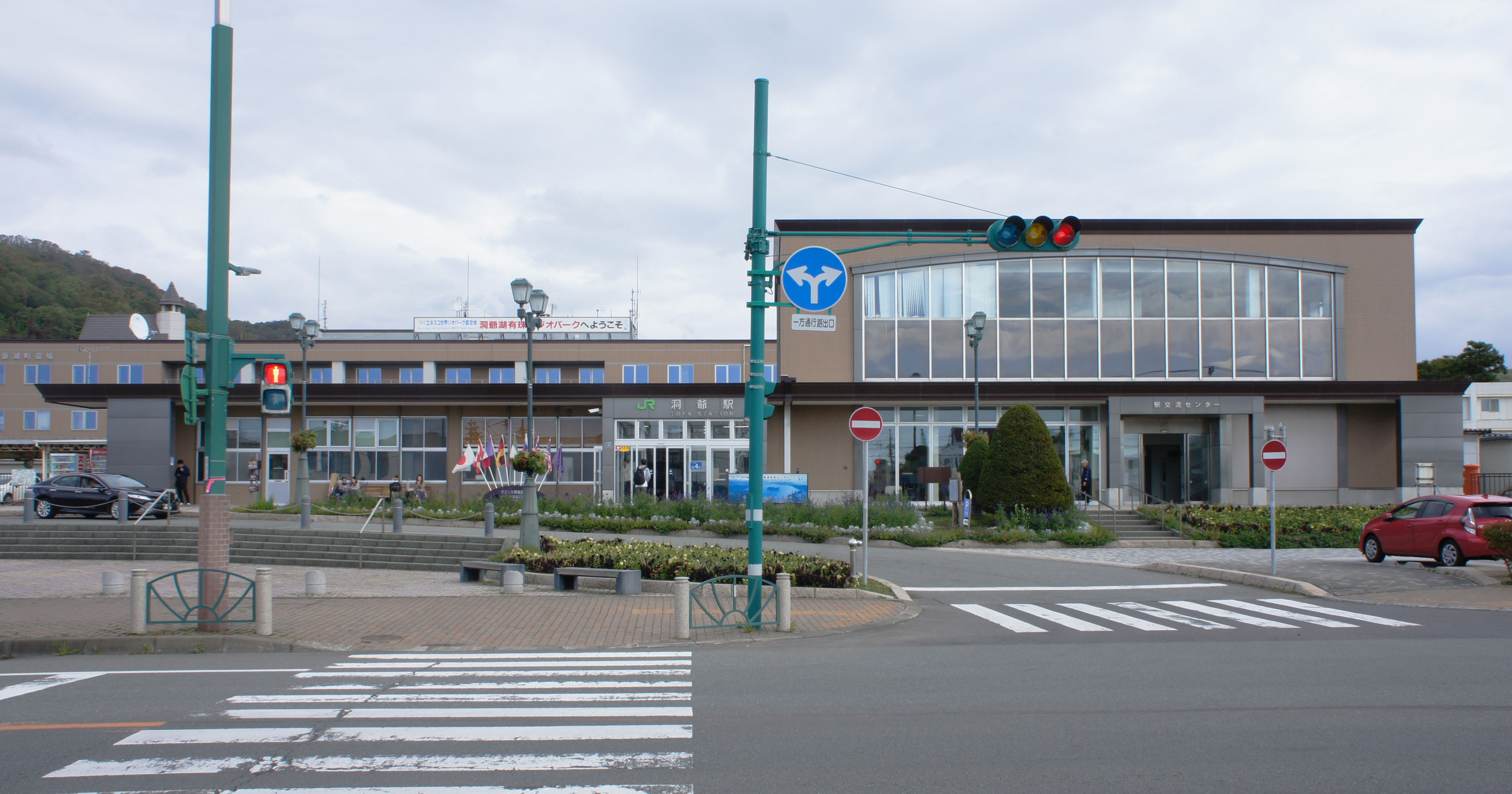 Station building of JR Muroran-Main-Line Toya Station